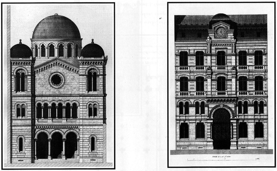 Architect drawing of the great synagogue of Lyon (France), built in 1864 by Abraham Hirsch